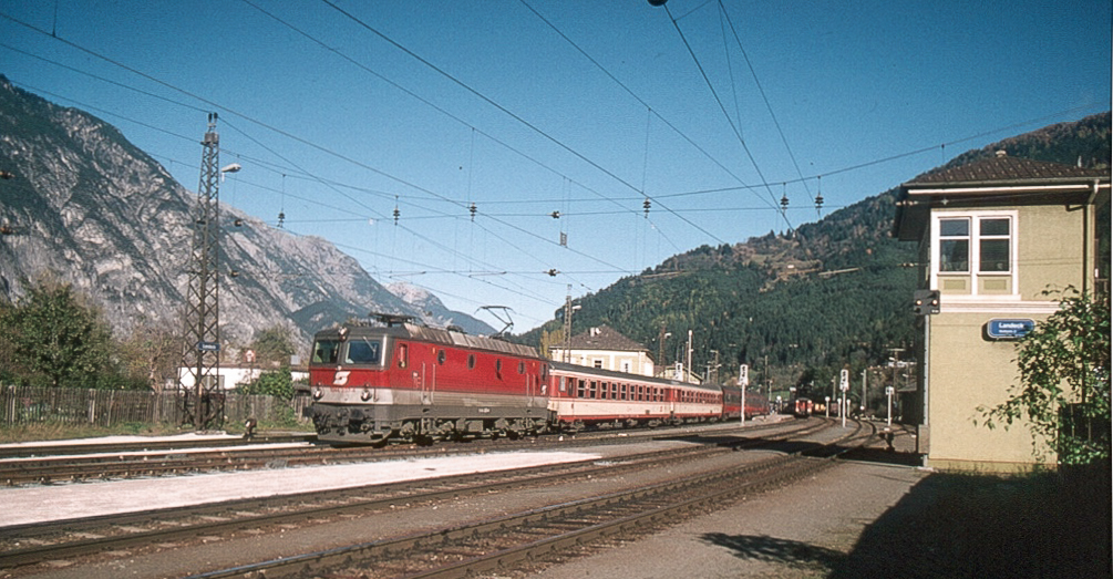 Intercity Vienna – Bregenz with 1044 237 at Landeck station